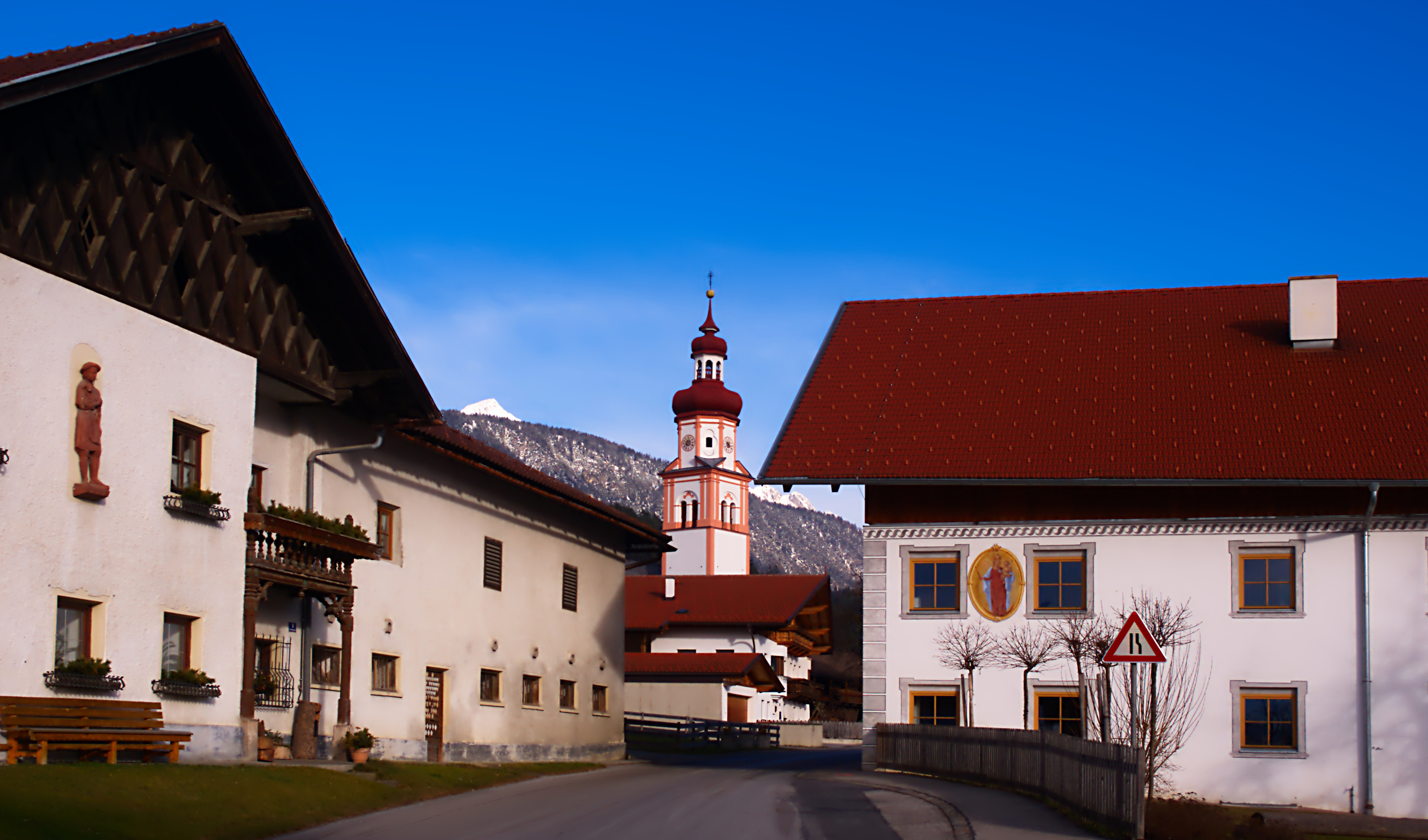 Detail from the village of Baumkirchen with church and Elementary school (right)